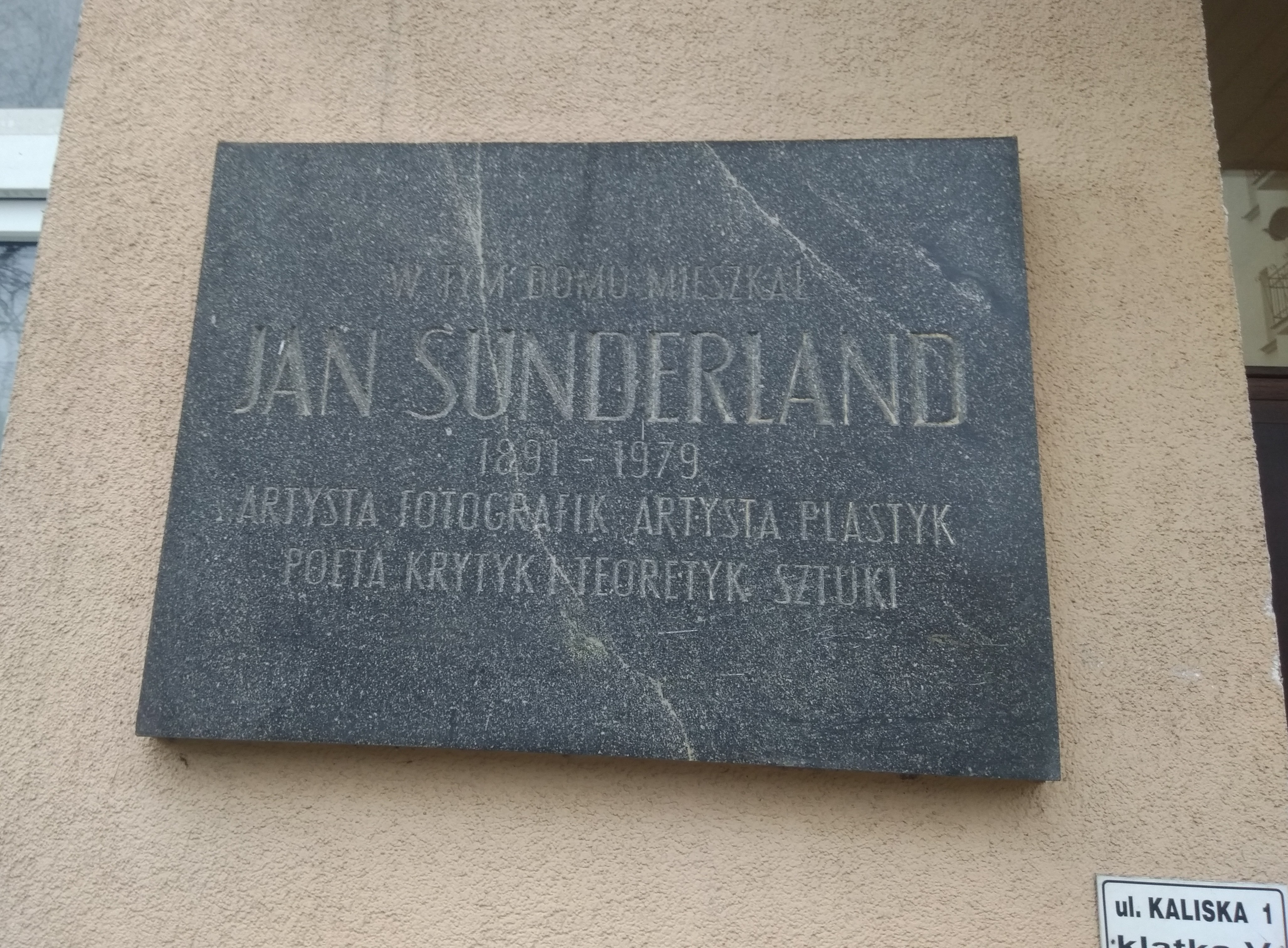 Plaque in memory of Jan Sunderland at 1 Kaliska Street in Warsaw